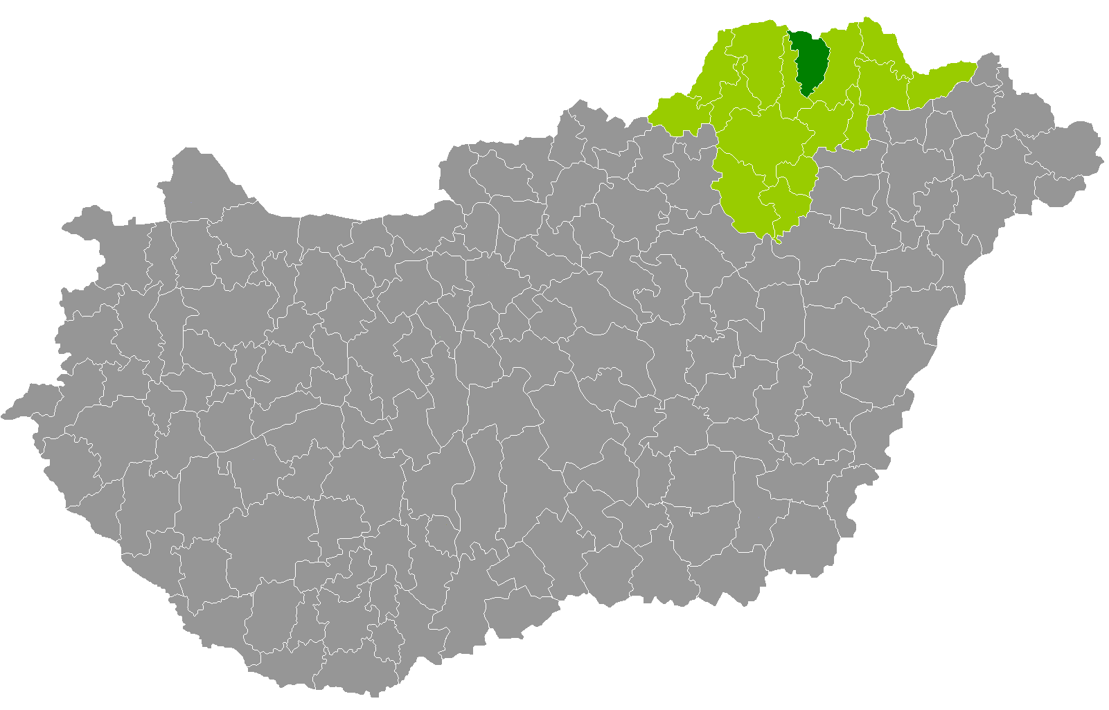 Location of Encs District, Borsod-Abaúj-Zemplén, Hungary